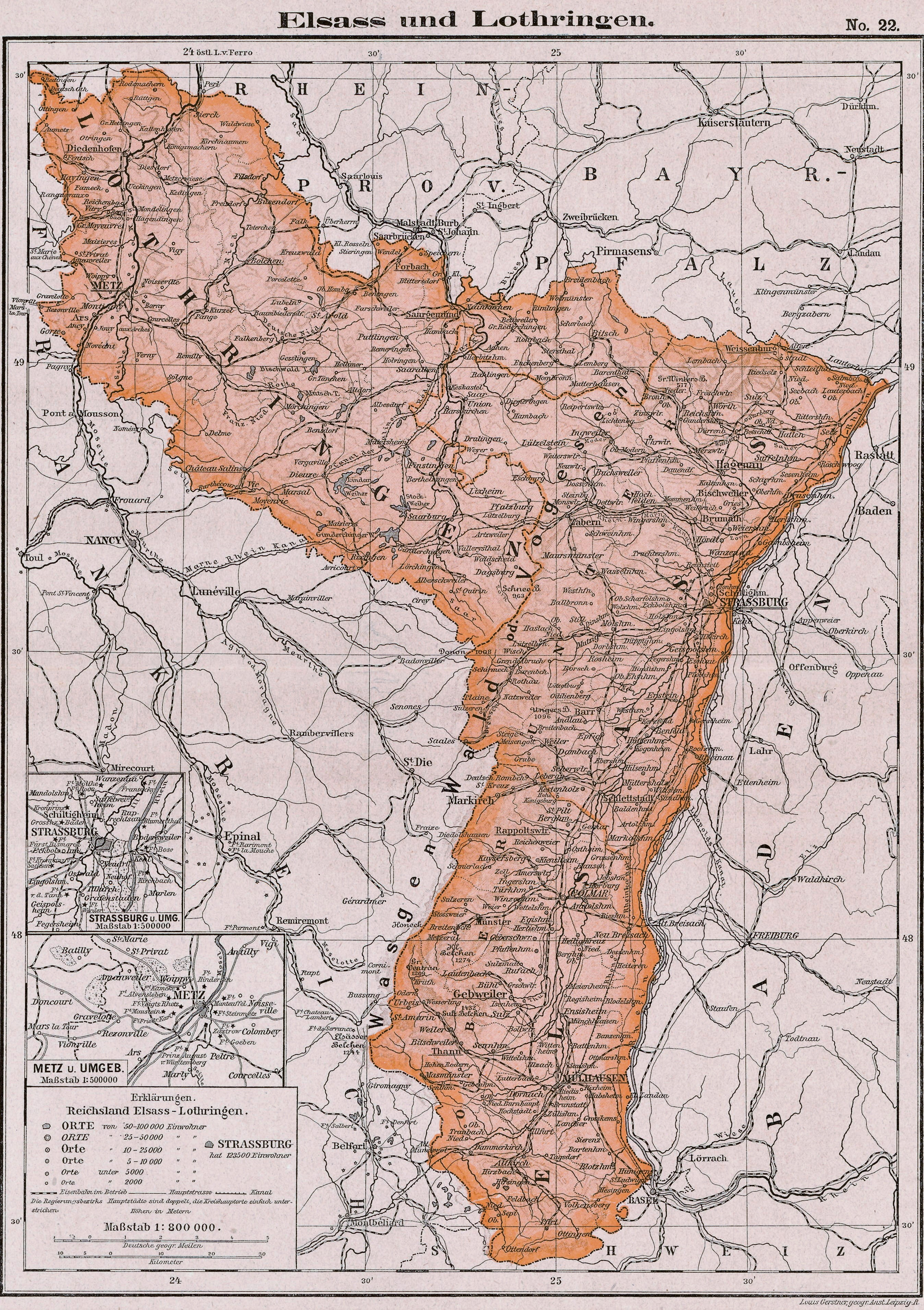 Historical map of Alsace-Lorraine in 1905.